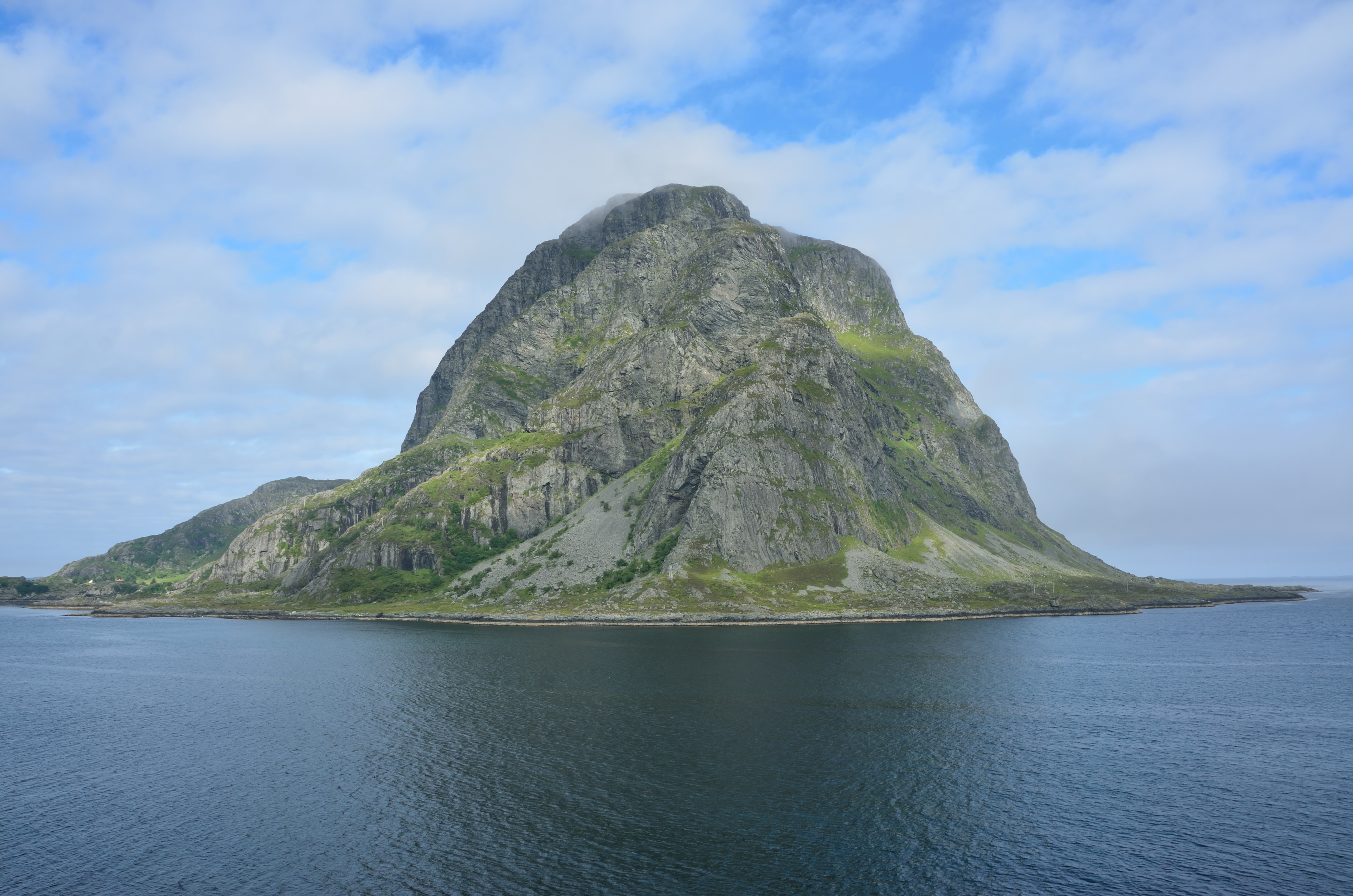 Alden island in Askvoll, Sogn og Fjordane county, Norway